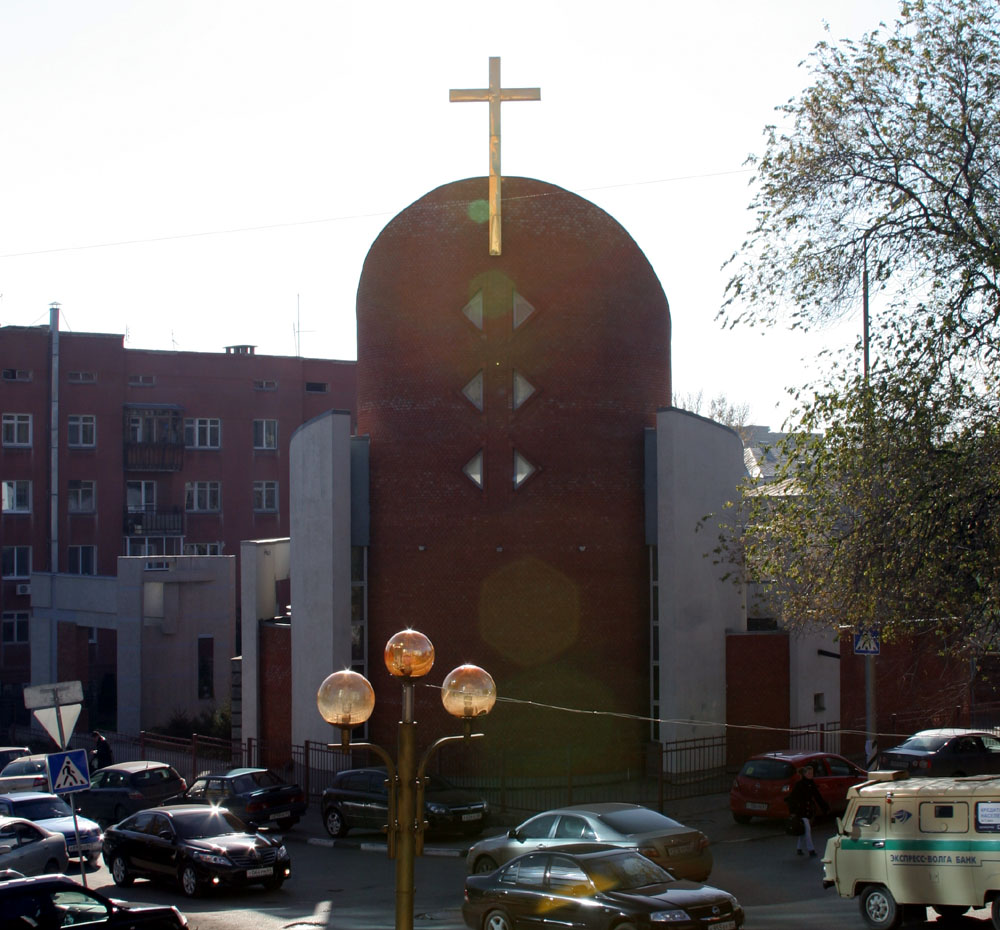 Roman Catholic Cathedral St. Peter and Paul, Saratov